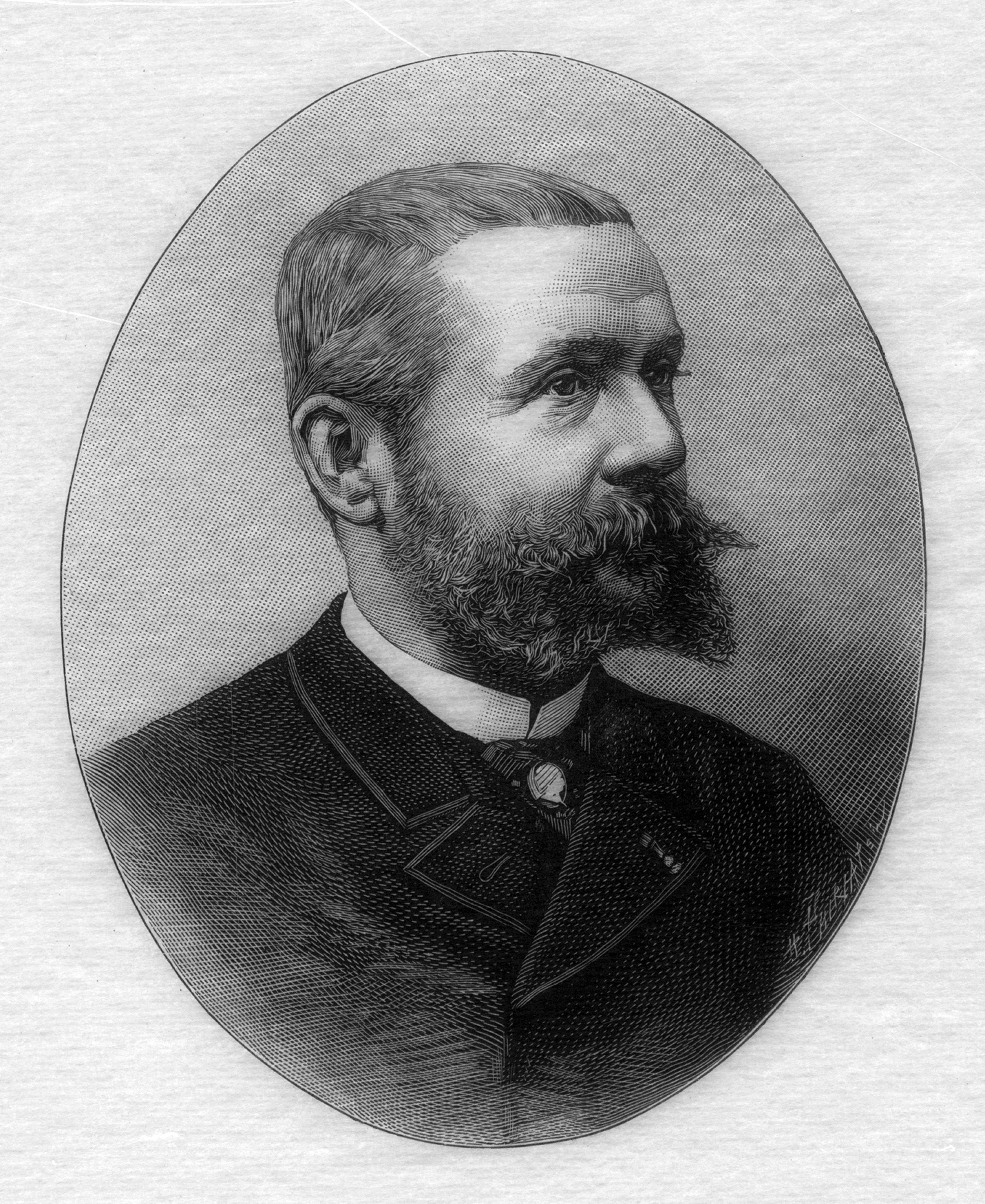 French chemist, meteorologist, aviator and editor Gaston Tissandier.